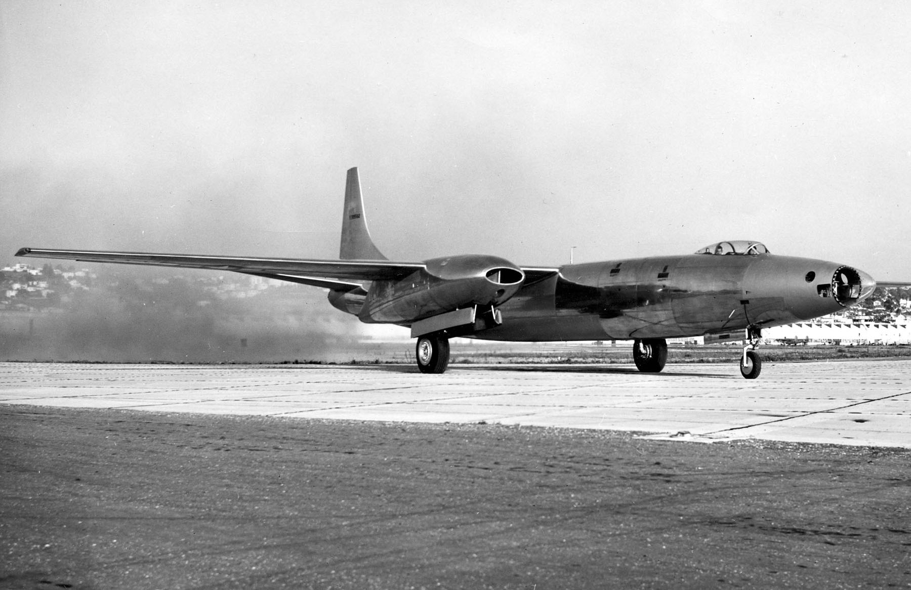 Convair XB-46 with engines running